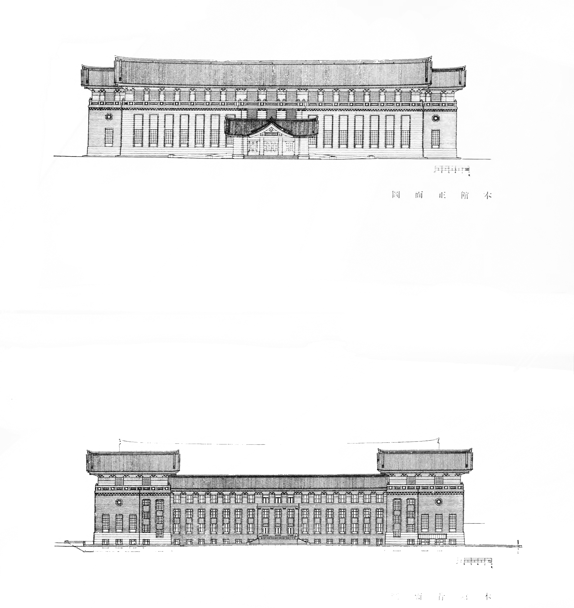 The front and side ground elevations of the Tokyo National Museum designed by Jin Watanabe, and completed in 1937. The architecture is in Shimoda Kikutarō's Imperial Crown Style.